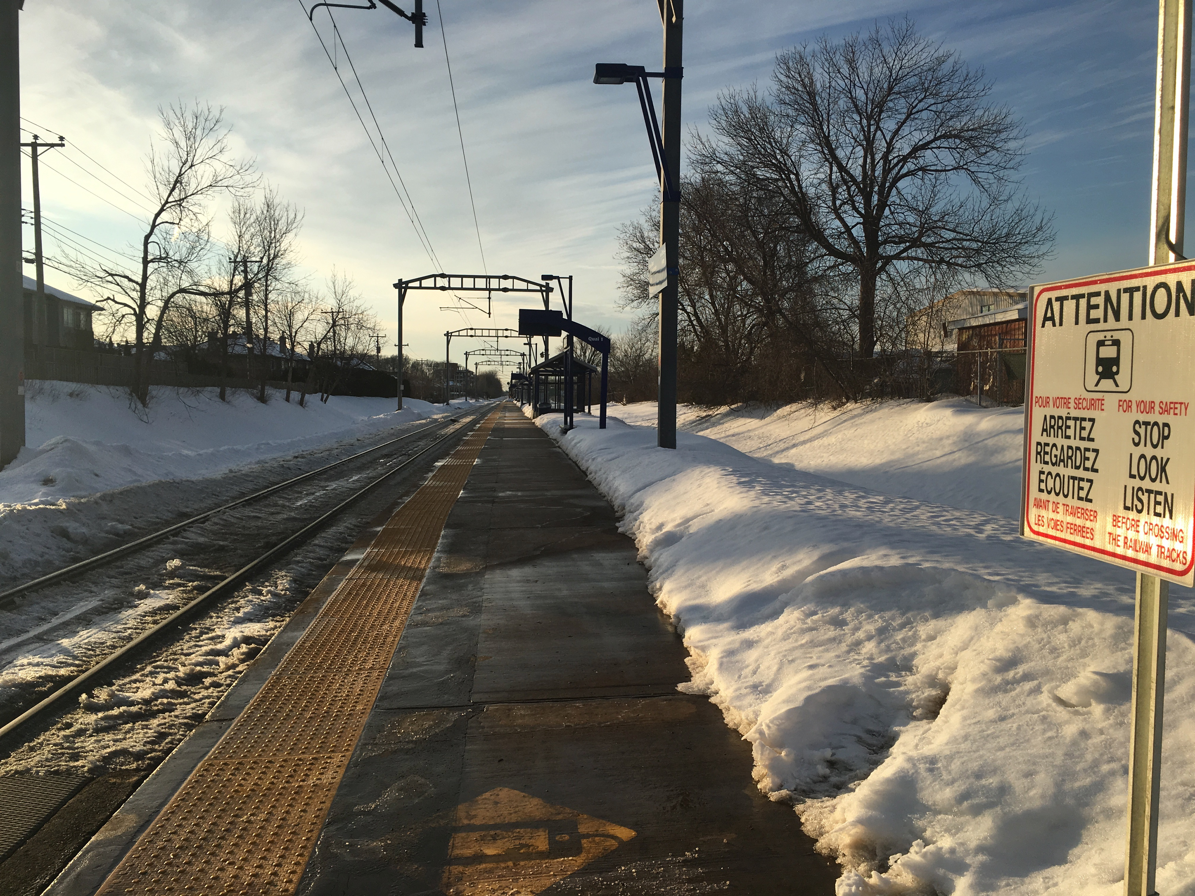 View of the platform of the Sunnybrooke (exo) train station